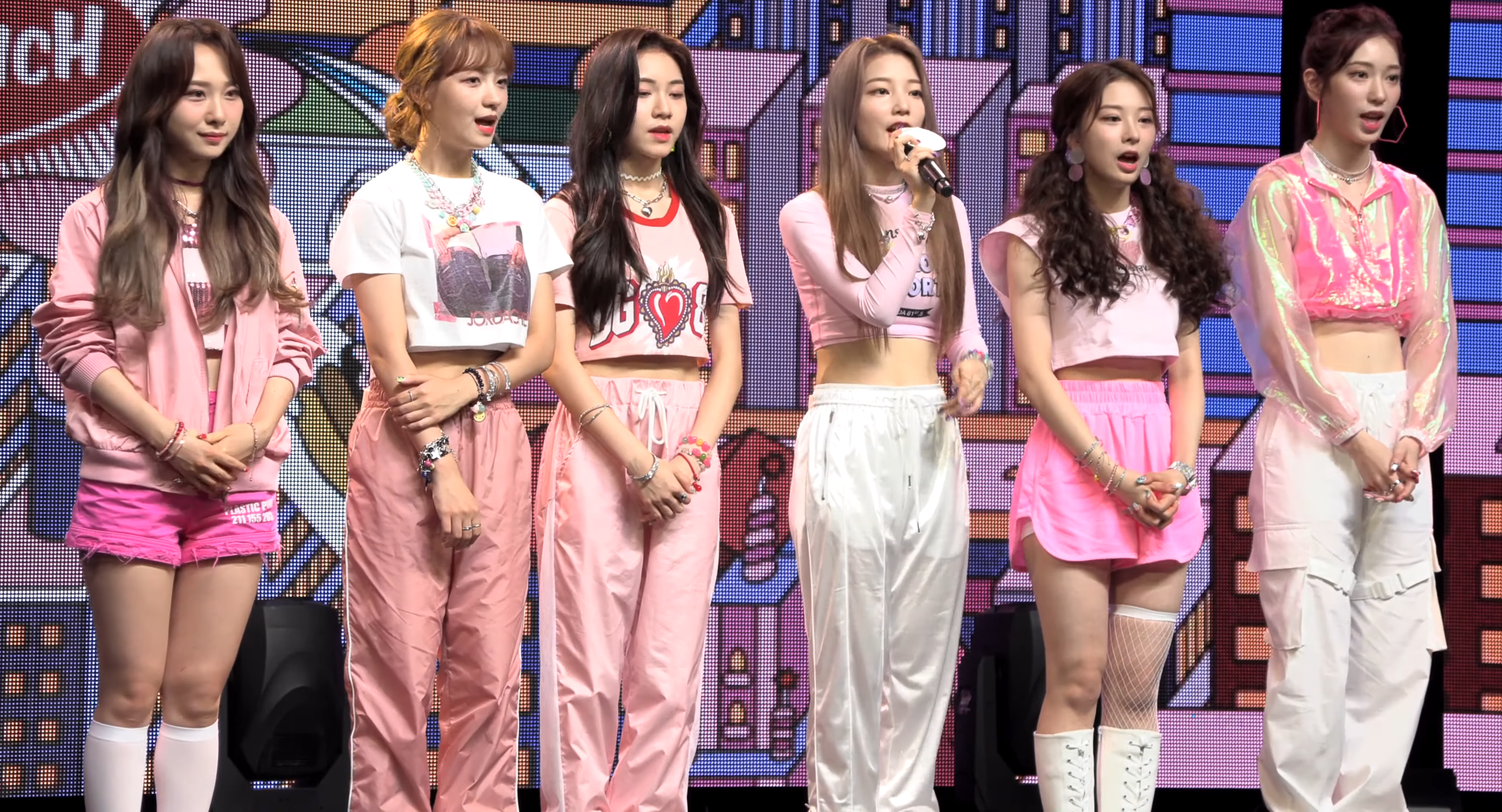 Rocket Punch Debut Showcase on August 7, 2019